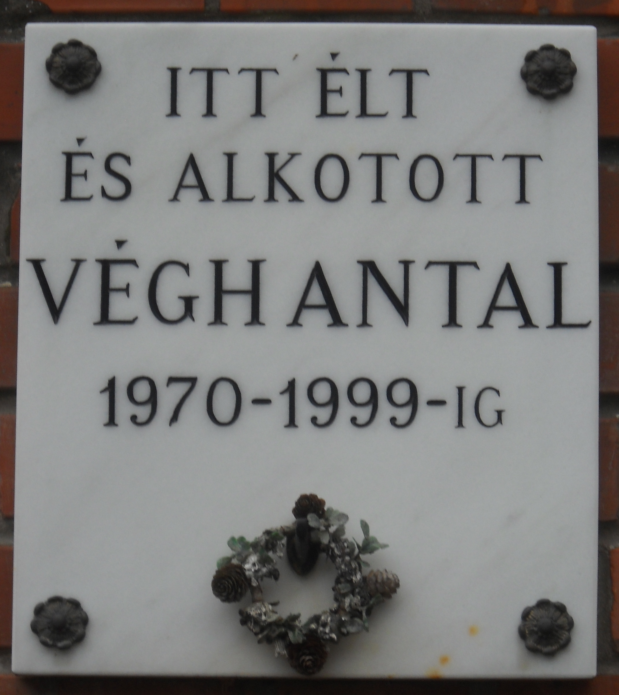 Commemorative plaque of Antal Végh in Budapest District II, Lipótmezei Street No 8/a